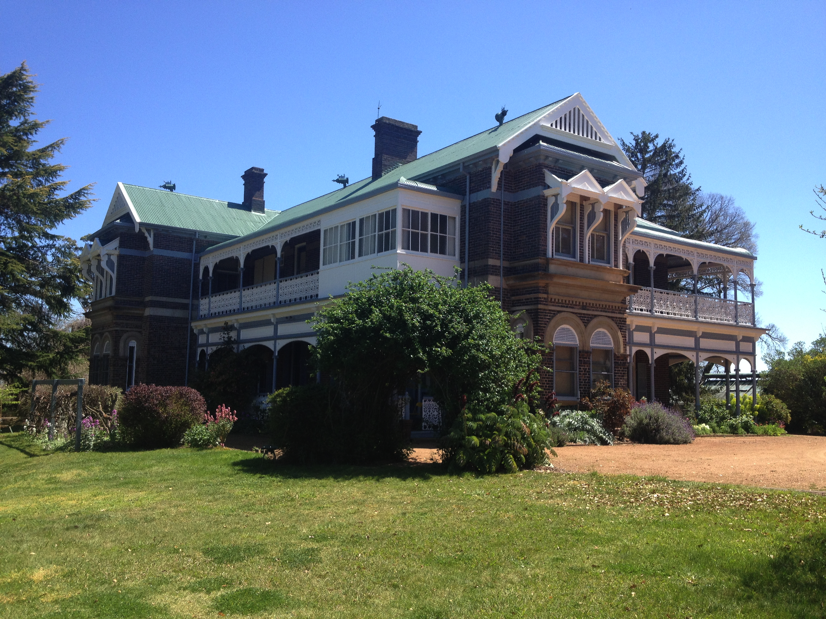 The main building at Saumarez Homestead, a National Trust property near Armidale, NSW, Australia.